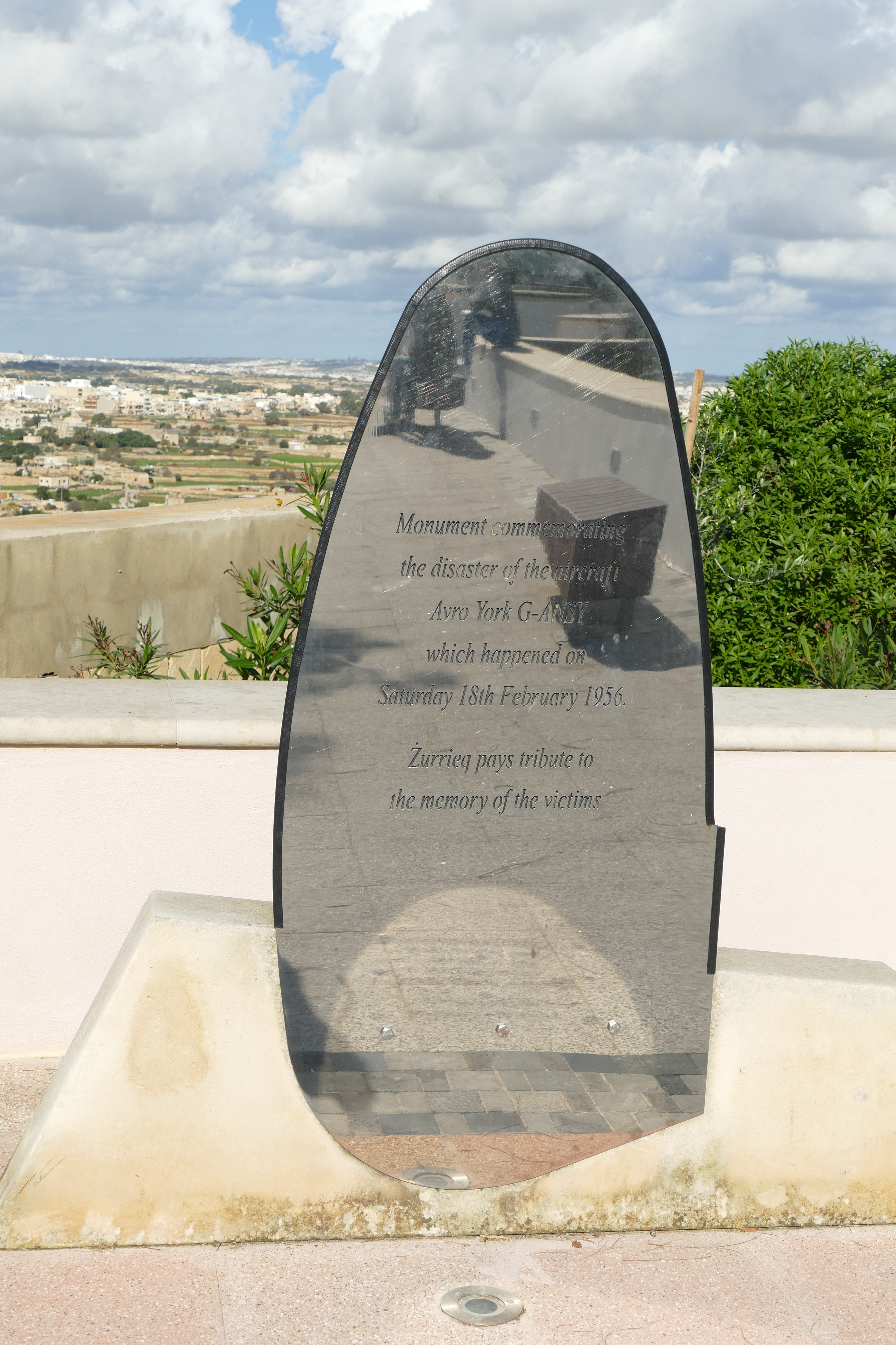 Il-Gibjun Gardens - a memorial for the victims of the crash of the aircraft Avro York G-Ansy on 18th February 1956